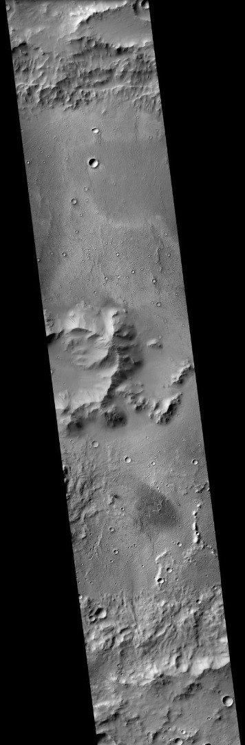 Central part of Burton Crater, as seen by ctx